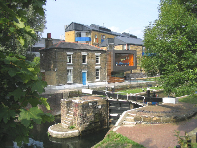 Mile End Lock, Regent's Canal, East London. An almost rural setting for this lock which is less than 2 miles from Canary Wharf. The lock-keepers cottage in the centre is now surrounded by the modern buildings of Queen Mary College.